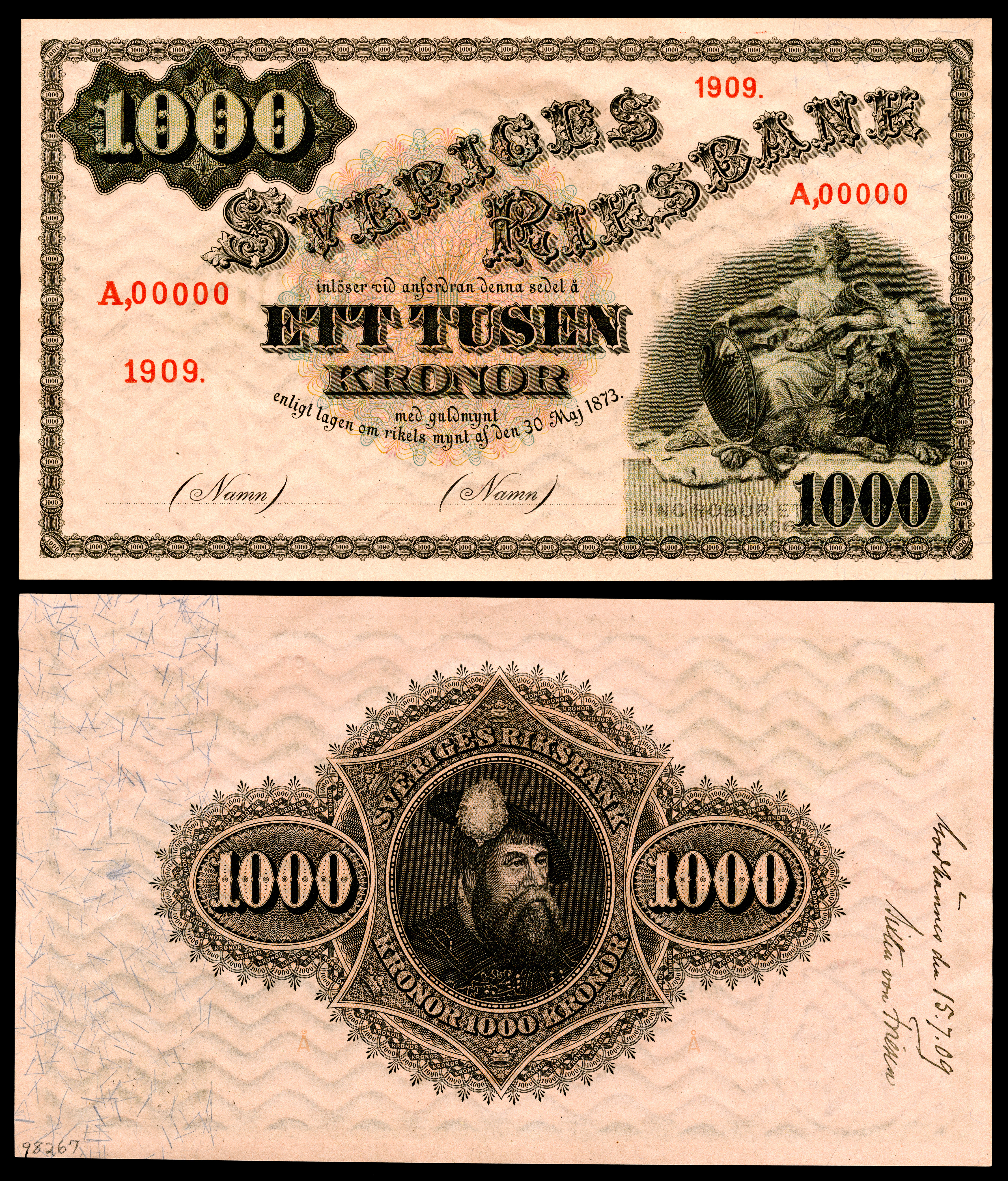 Sweden, Sveriges Riksbank, 1000 Kronor specimen (1909). The original designs/engravings for this note were introduced in 1888 and remained largely unchanged (aside from denomination) through 1914. The allegory of Svea is on the front (by Max Mirowsky), and Gustav Vasa on the back. Also on the reverse is a handwritten notation approving the specimen for production, dated 15 July 1909.